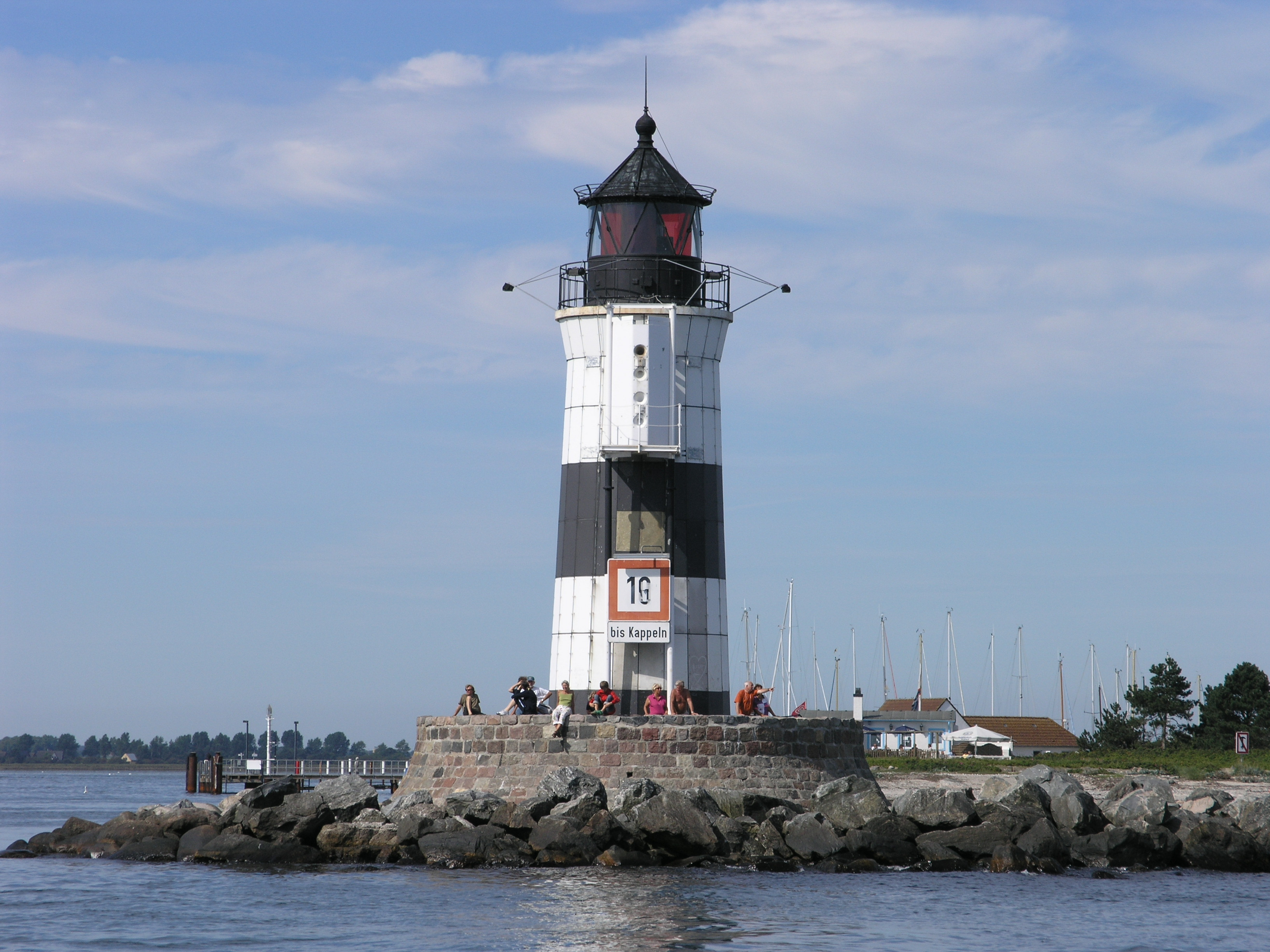 Schleimünde